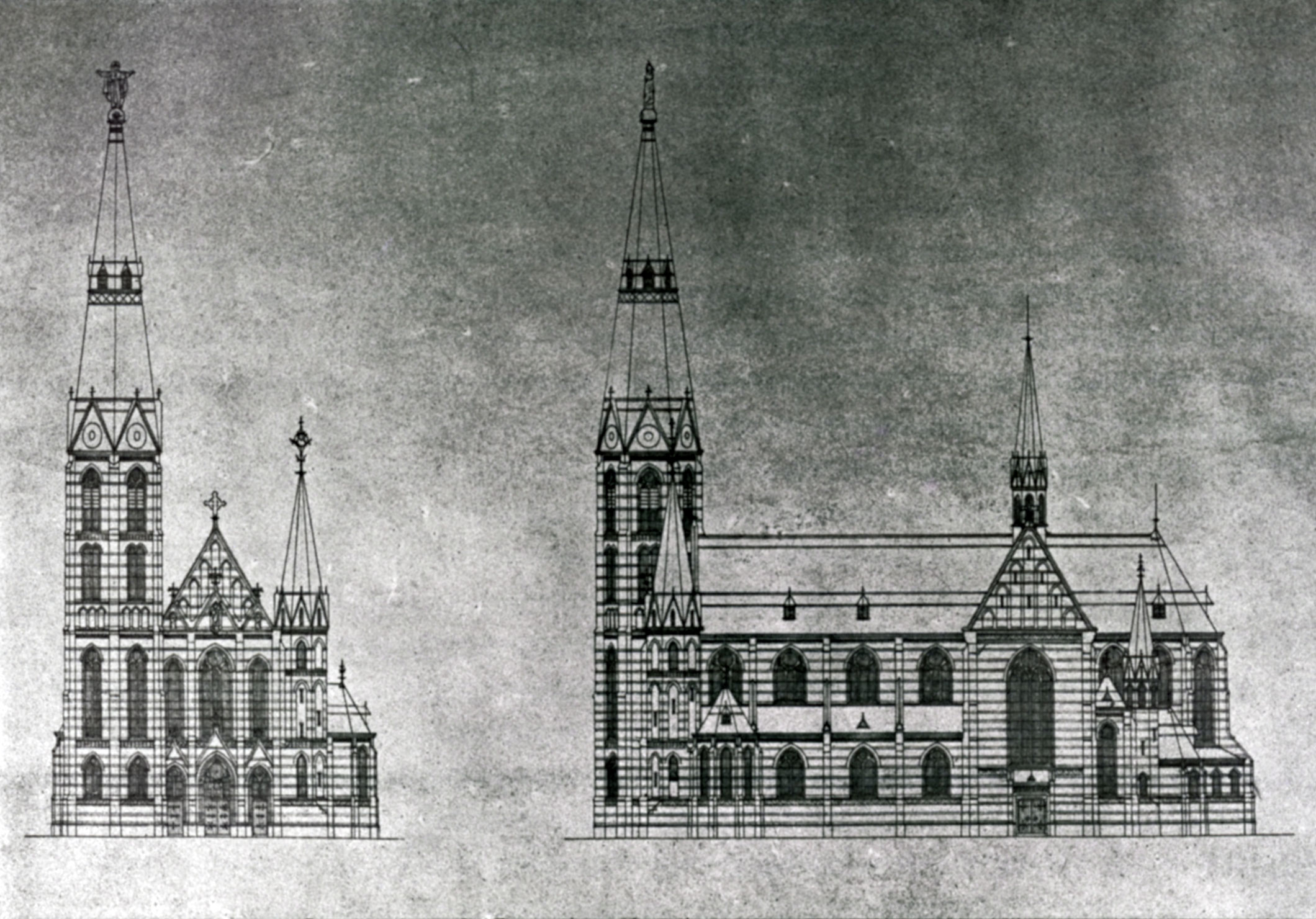 Blueprint of design Heilig Hartkerk, Eindhoven, Netherlands (modified by me)